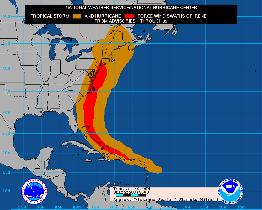 Cumulative wind from Hurricane Irene (2011)